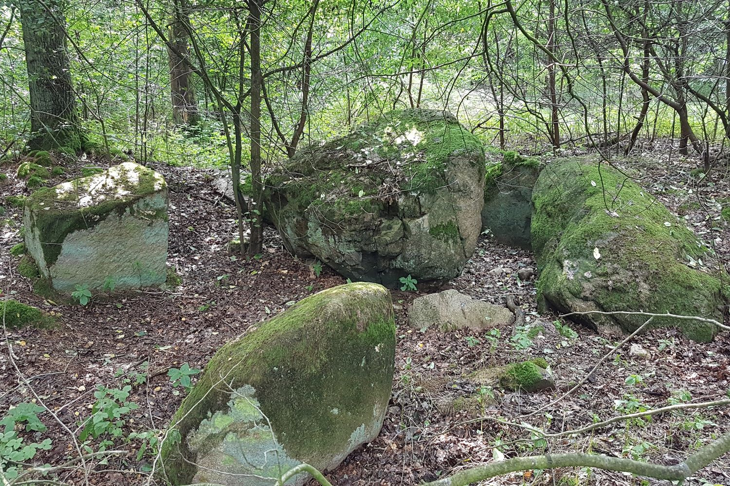 Großsteingrab Wenzendorf